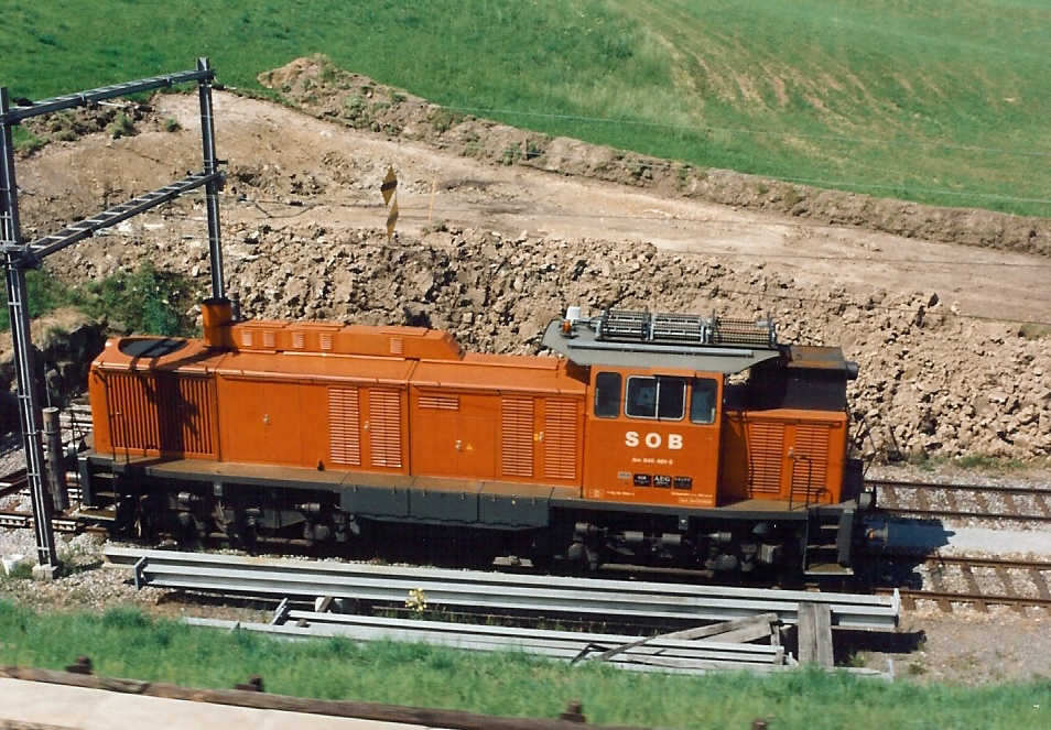 Südostbahn diesel locomotive Am 846 461-2 (today 846 033-9) in Samstagern